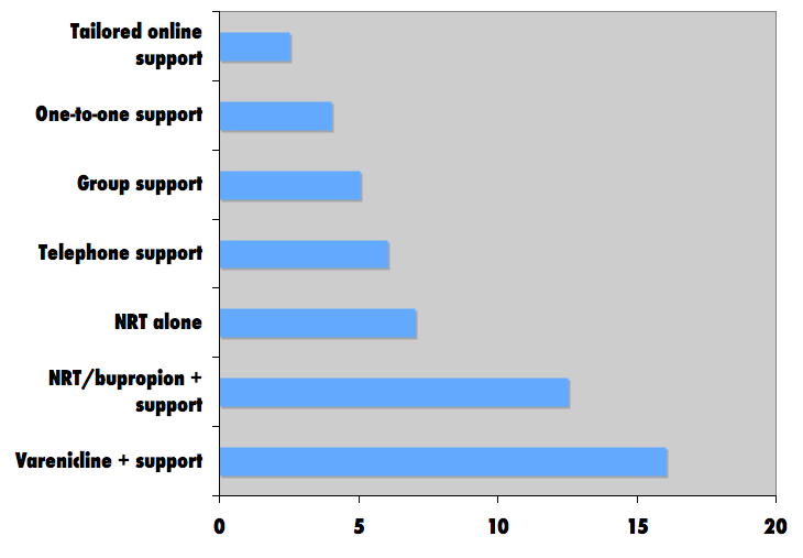 Percent increase of success for six months over unaided attempts for each type of quitting (except cold turkey and cutting down to quit)